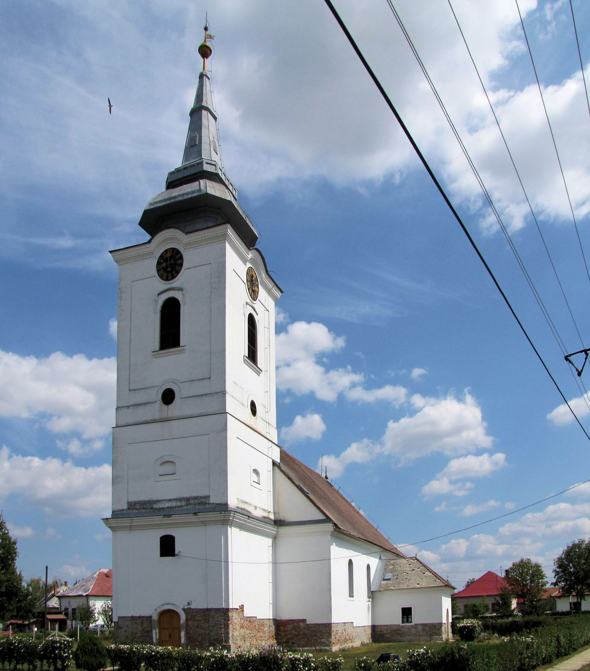 Mikszáth street protestant church, Abádszalók, Hungary